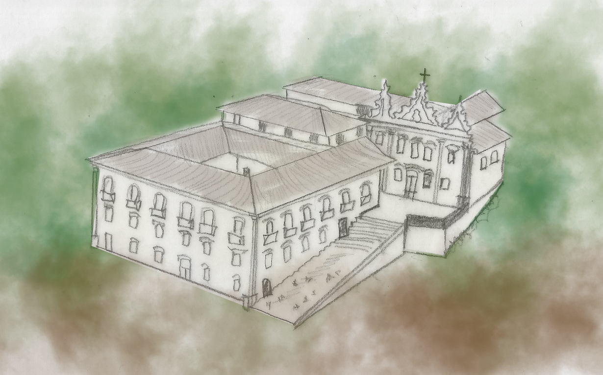 croqui humanizado engenho freguesia